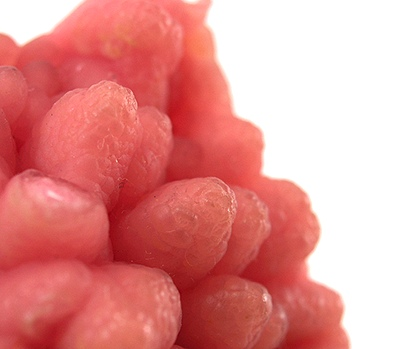 Calcite, Rhodochrosite Locality: Oppu mine, Nishimeya-mura, Naka-Tsugaru-gun, Aomori Prefecture, Tohoku Region, Honshu Island, Japan (Locality at ) Size: miniature, 5 x 4.9 x 2 cm Rhodochrosite ps. after Calcite A superb, richly colored specimen with large and complete replacement of calcite crystals by rhodochrosite. This is an unusually fine example of this rare, old material. It is gorgeous!